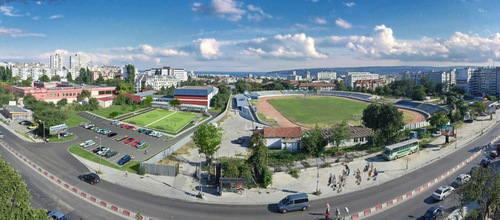 Stadium Complex